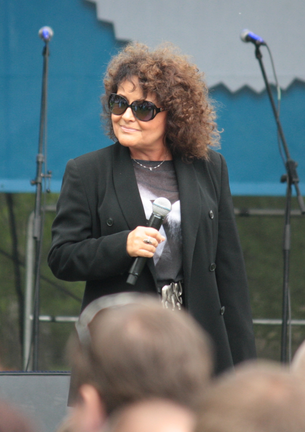 Jitka Zelenková during ODS election campaign meeting with Czech voters on Prague island Kampa